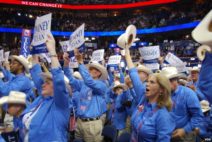 Texas Delegation reacting to a speech at the 2012 Republican National Convention